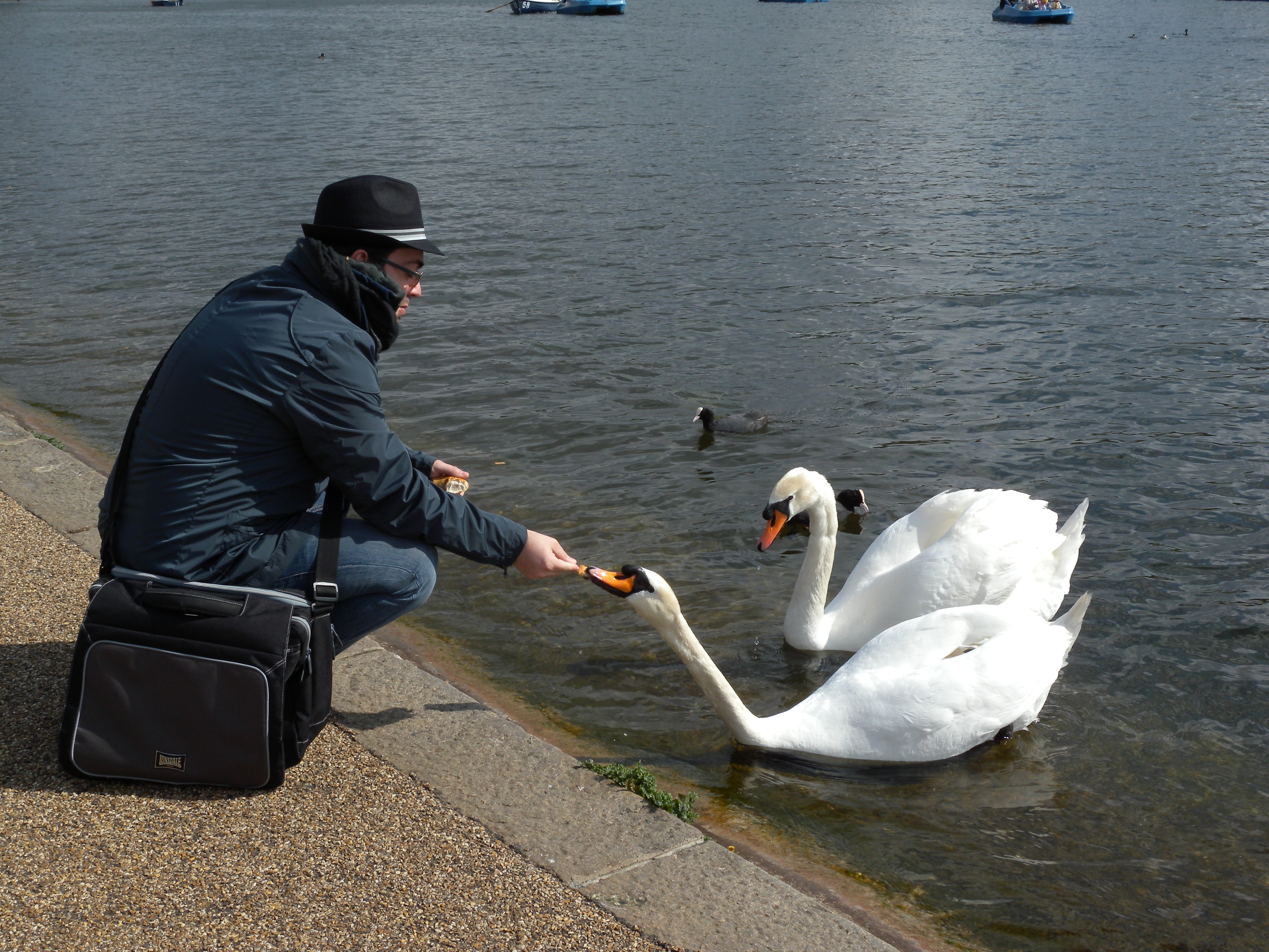 Feeding swans in Hyde Park